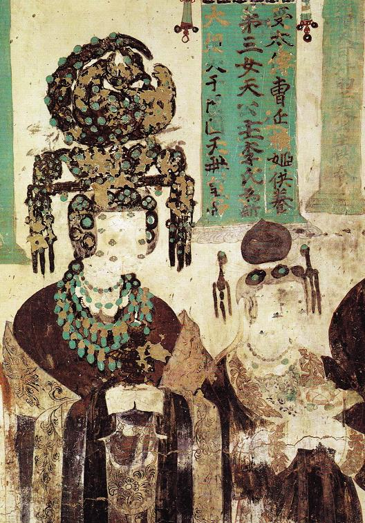 Donor figures from Mogao cave 61, showing wife of ruler Cao Yanlu who was the daughter of the King of Khotan wearing elaborate headdress and necklace made of fine jade. Five Dynasties (Guiyijun period).